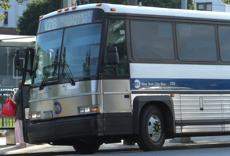 The X28 drops off Manhattan commuters on 86th Street. - From the collections of the Dyker Heights Historical Society. user:cjz208, of the Dyker Heights Historical Society, is the copyright holder of this work, and has published or hereby publishes it under the following license